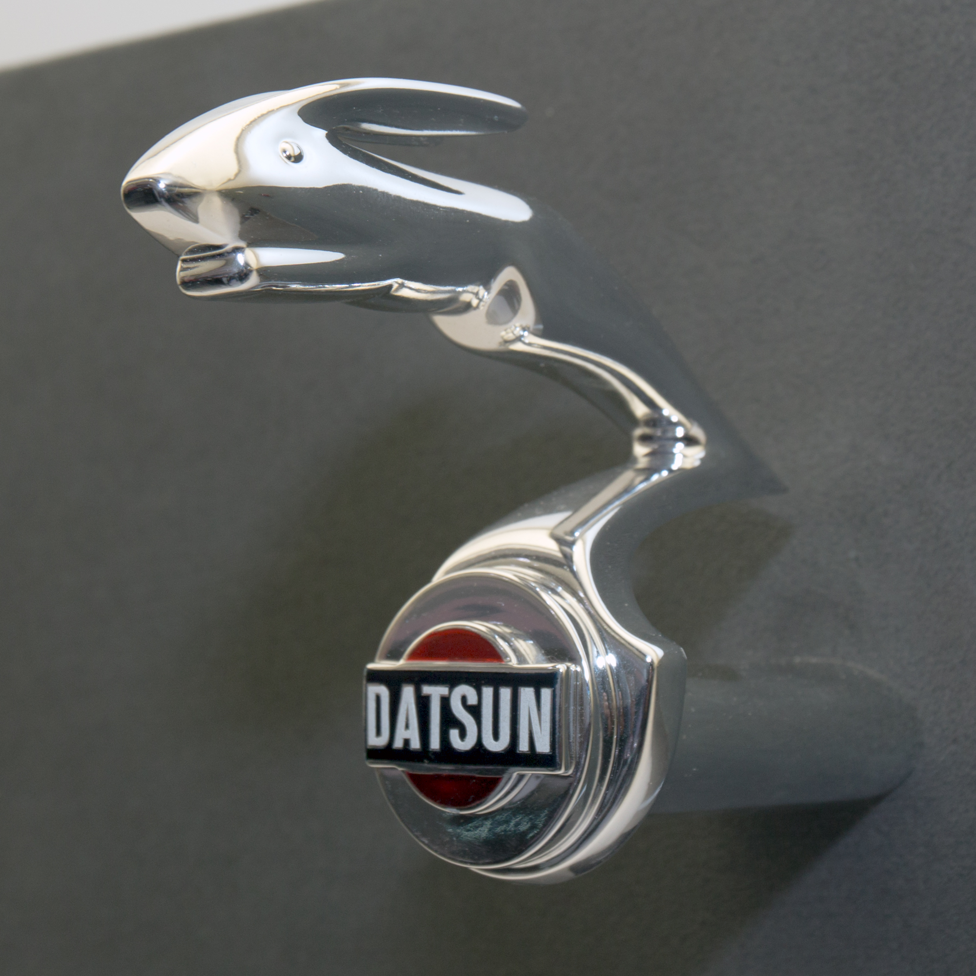 Tokyo Motor Show 2013: Datsun 14 hood ornament